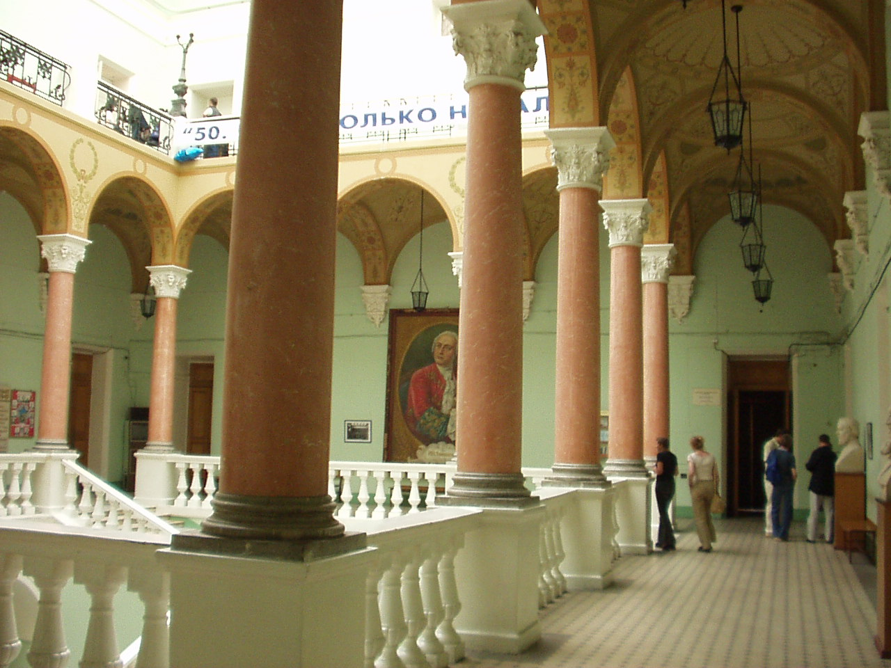 Faculty of Journalism of Moscow State University, 2002